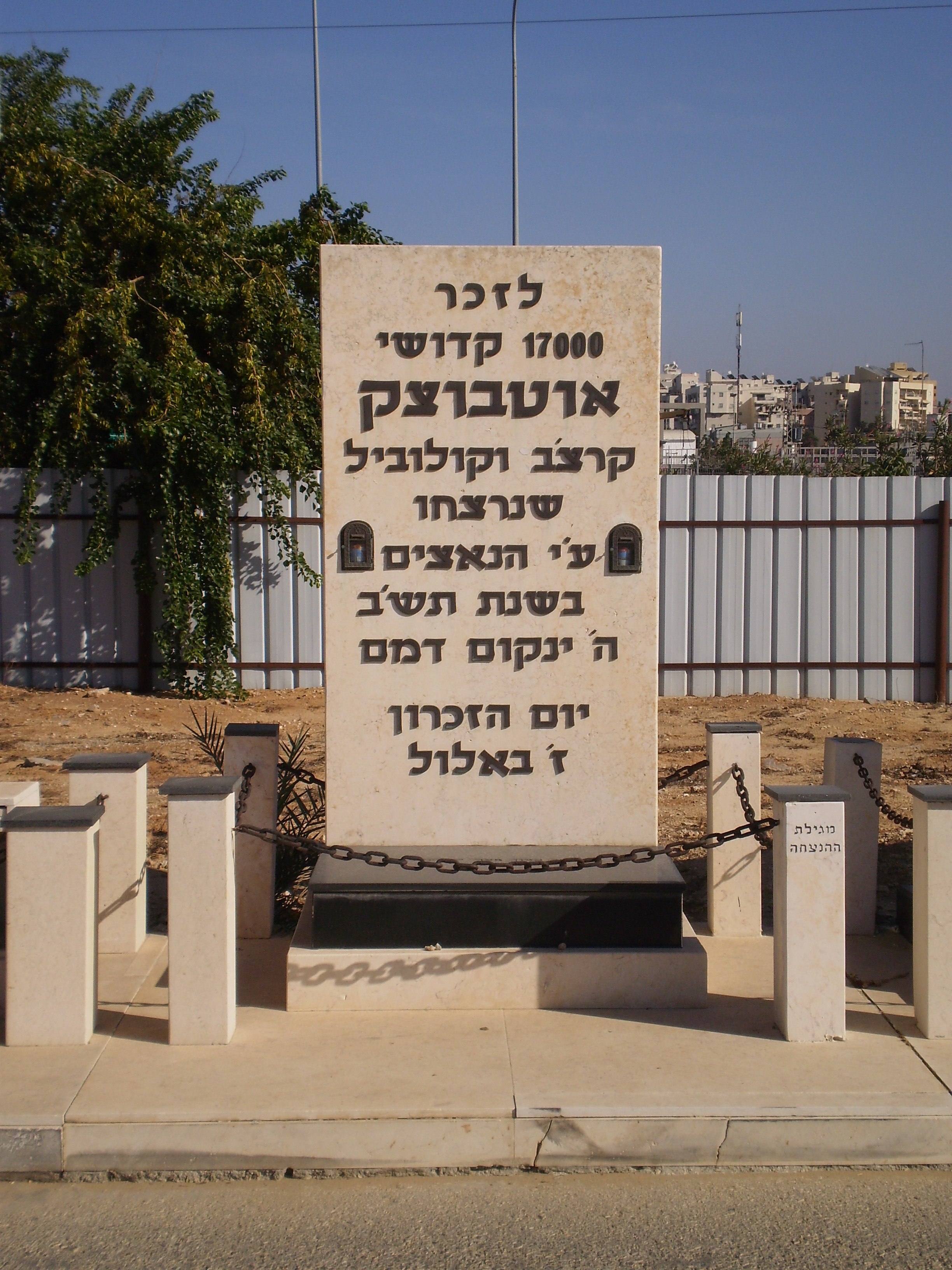 Otwock Jewery Holocaust memorial at Holon Cemetery